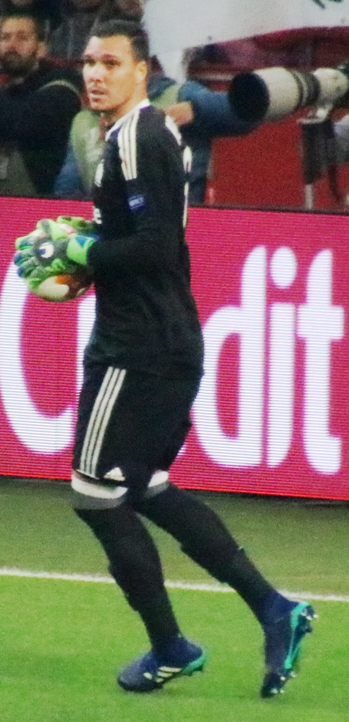 UEFA Euroleague semifinal 2nd leg